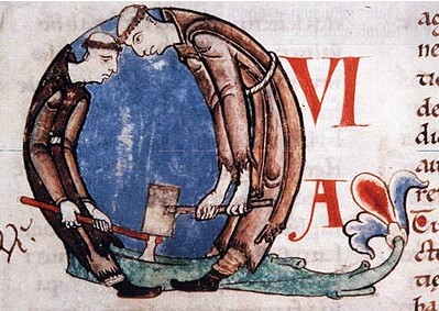 Cistercian monks at work